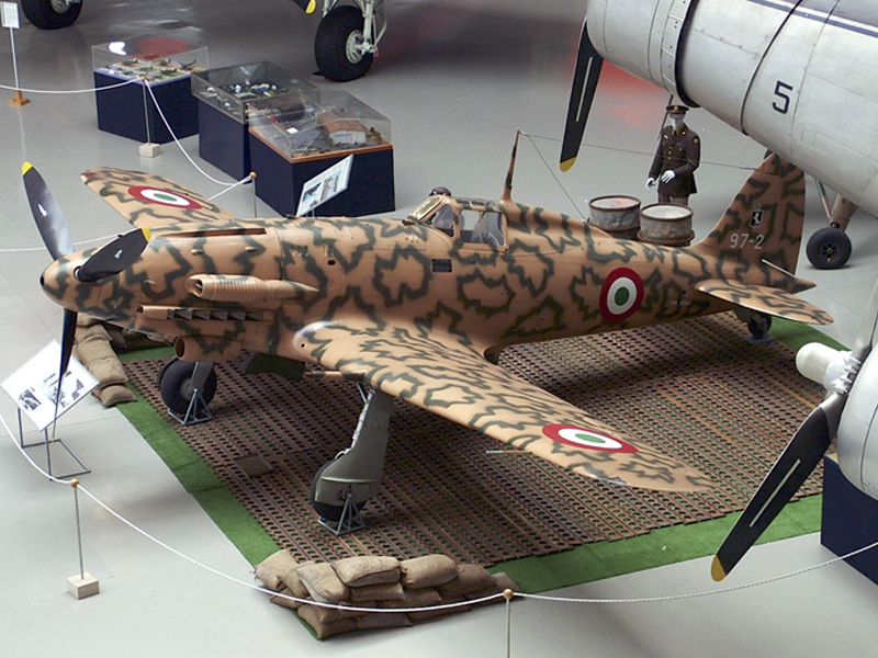 The Macchi MC.205V M.M.9546 exposed at Italian Air Force Museum (hangar Badoni)